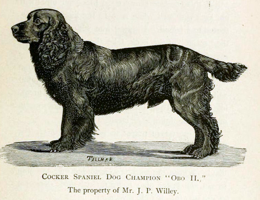 A drawing of founding sire of the American Cocker Spaniel, Ch. Obo II.